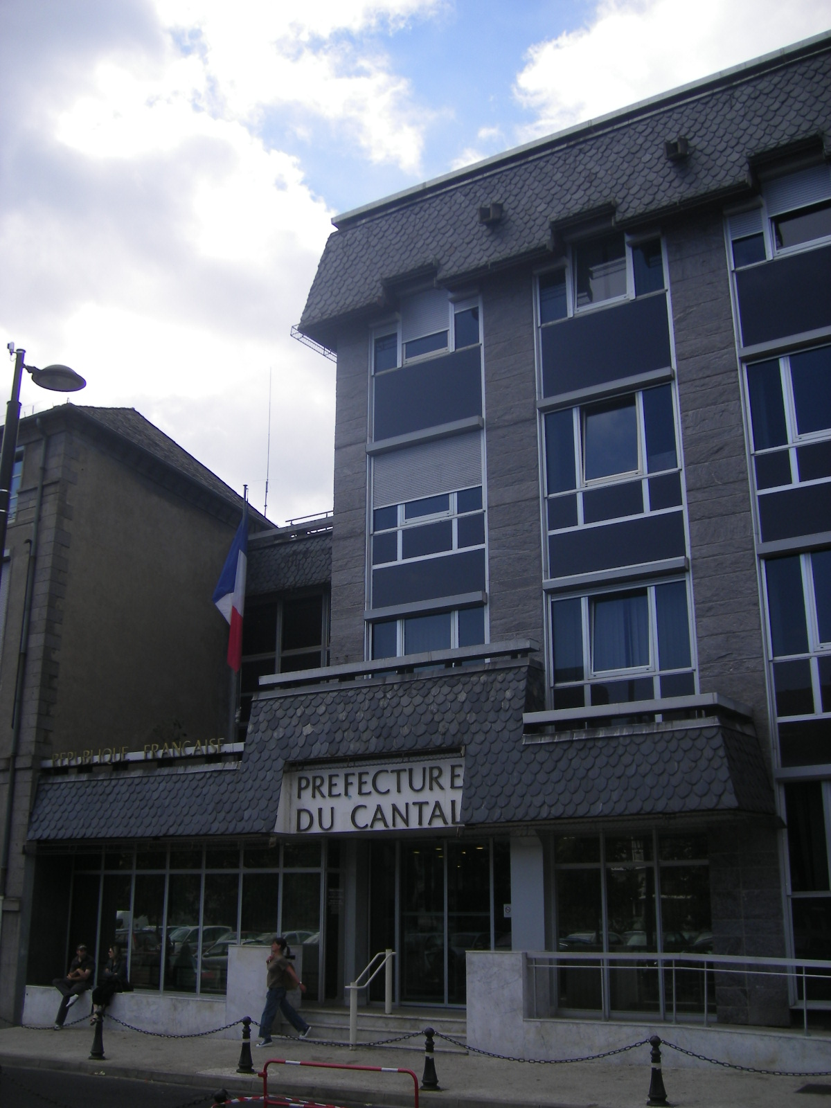 Aurillac - prefecture of Cantal